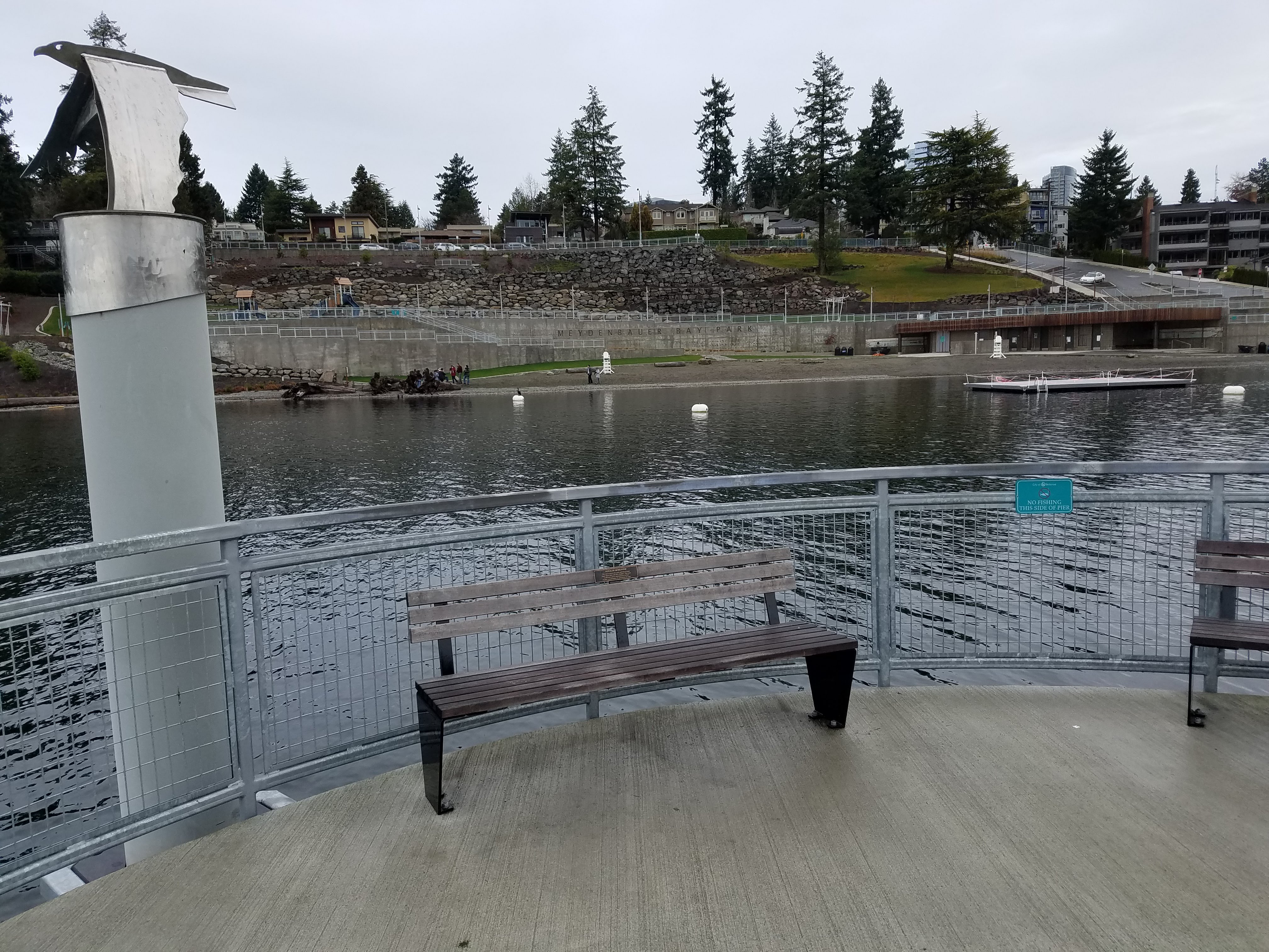 Meydenbauer Bay Park looking towards the north shore